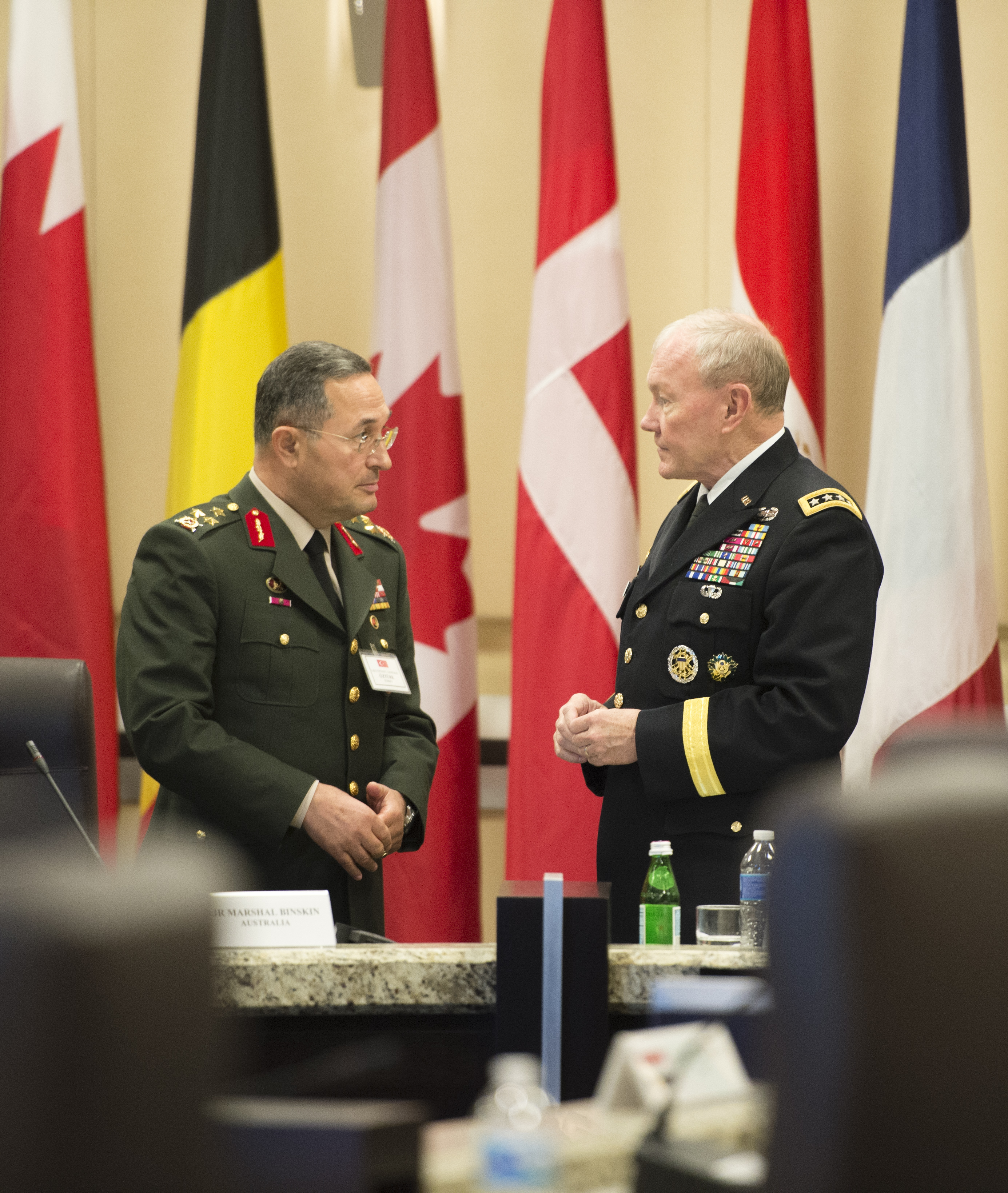 U.S. Army Gen. Martin E. Dempsey, right, the chairman of the Joint Chiefs of Staff, talks with Turkish Armed Forces Lt. Gen. Erdal Ozturk during a discussion with military leaders from 20 nations about strategies in the Middle East at Joint Base Andrews, Md., Oct. 14, 2014. (DoD photo by Mass Communication Specialist 1st Class Daniel Hinton, U.S. Navy/Released)